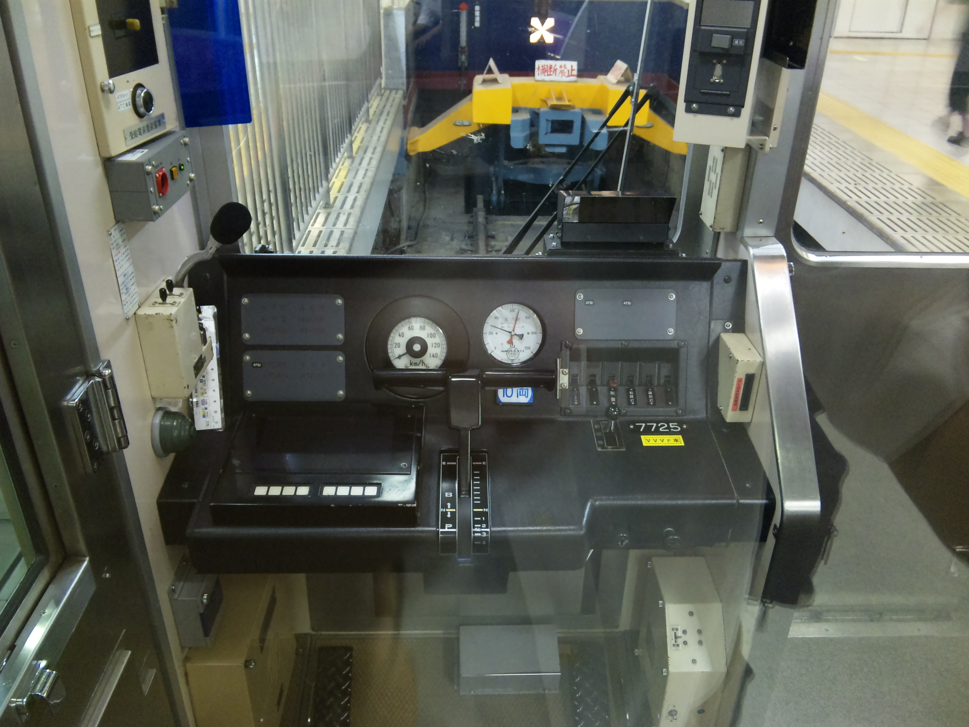 This is cockpit (series keio-7000)